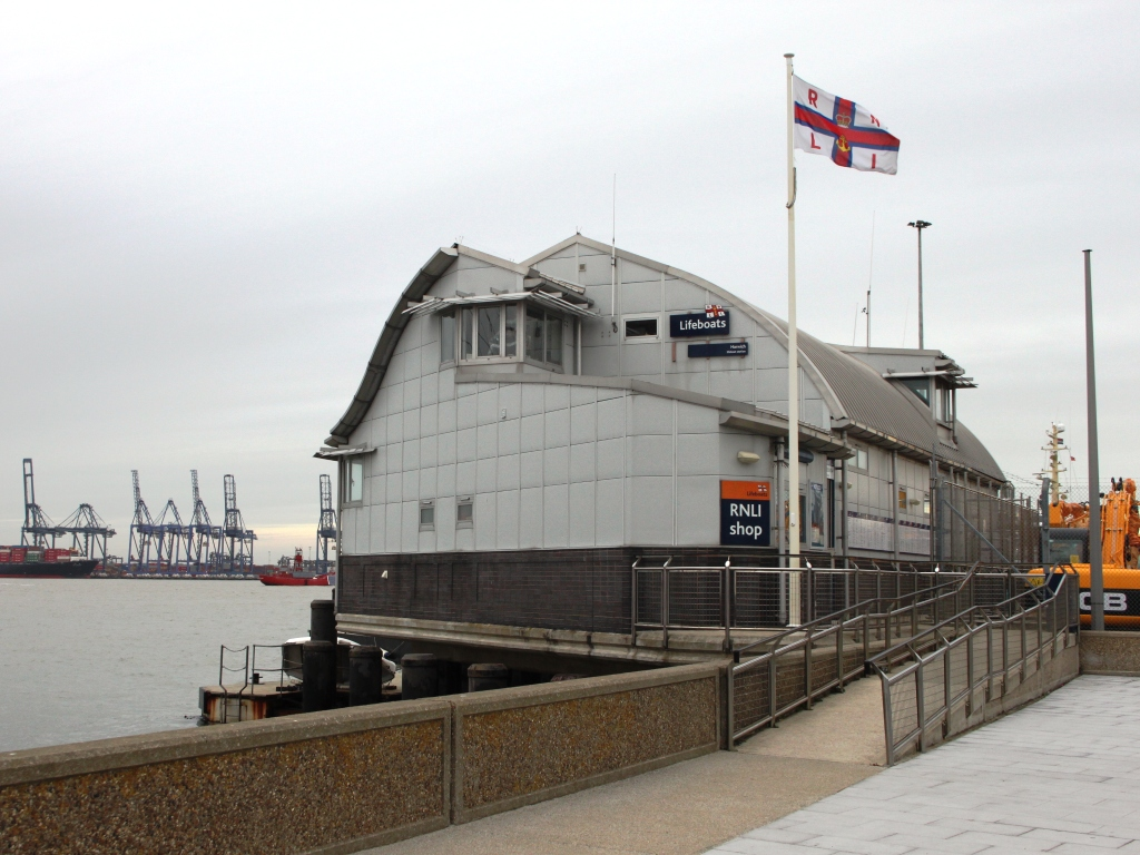 Harwich Lifeboat Station is near the mouth of the River Stour on England's east coast. The cranes in the background are in the Port of Felixstowe, England's busiest container port.